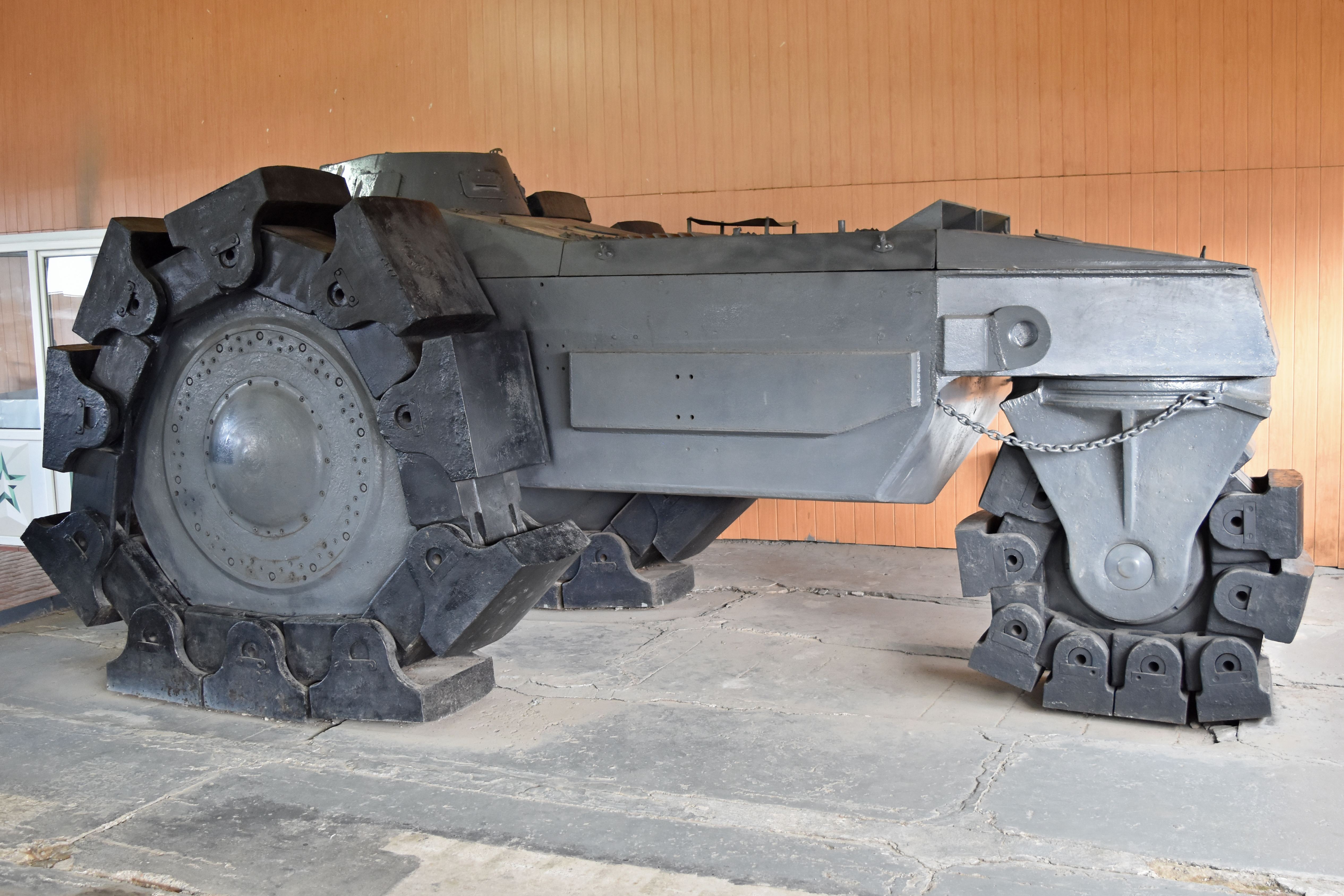 German WW2 Minesweeper Prototype Official designation:- VsKfz617 Jointly designed by Alkett, Krupp and Mercedes-Benz. Intended for battlefield mine clearance and fitted with a Panzer I turret. It never went into production as its size and slow speed was thought to make it too good a target. This sole prototype was completed by Alkett in 1942 and given the WkNo 9537. It was recovered by Soviet forces in April 1945 and taken to Kubinka for testing. It is now on display in what is best known as Hall 5 of the Kubinka Tank Museum, although its official title is now Pavilion 5 in Area 2 of the Park Patriot museum. Kubinka, Moscow Oblast, Russia. 24th August 2017.